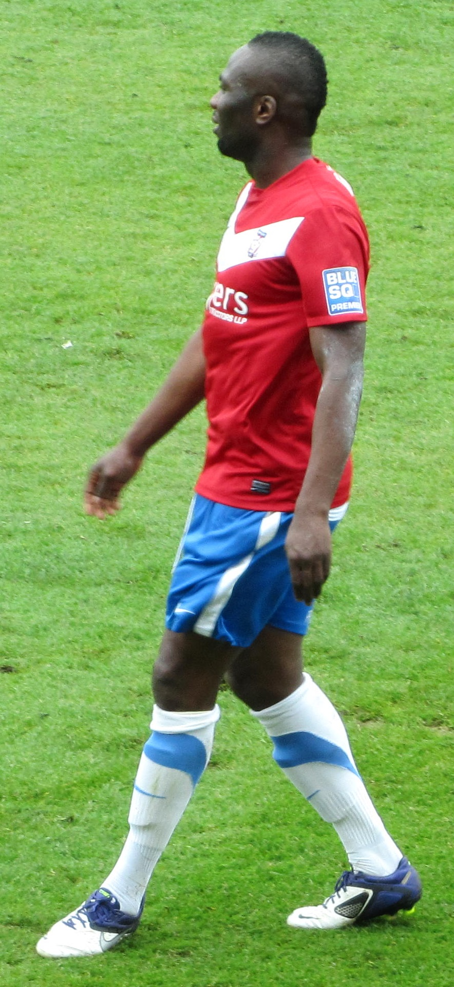 Moses Ashikodi